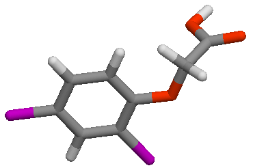 Image from MolInspiration's 3-D structure of 2,4-Dichlorophenoaceric acid.